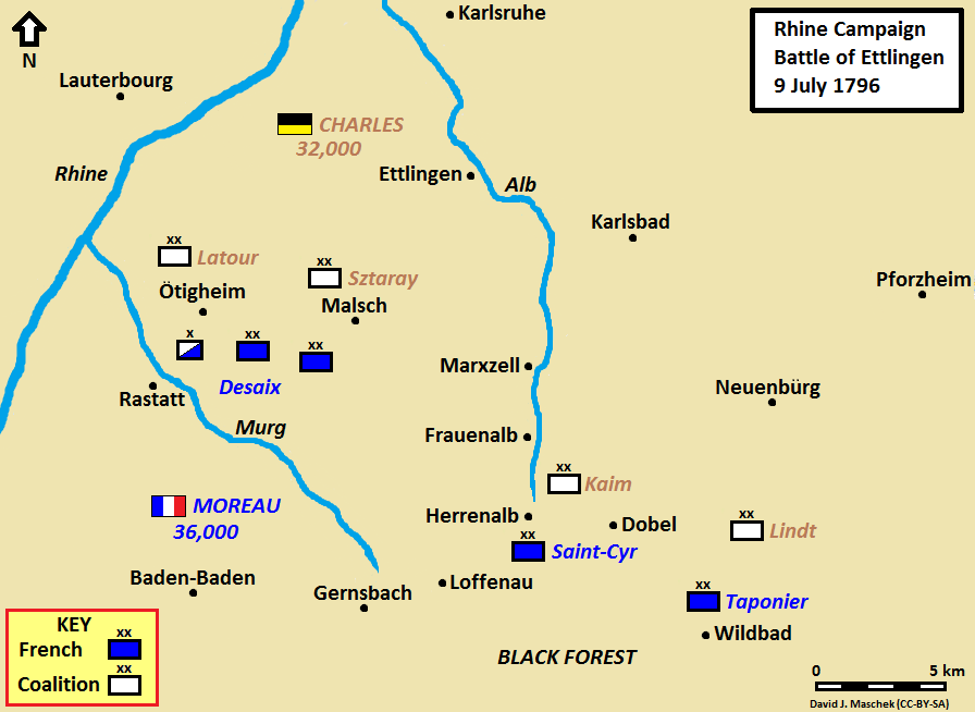 Map shows the Battle of Ettlingen (or Malsch) which was fought on 9 July 1796 during the War of the First Coalition.